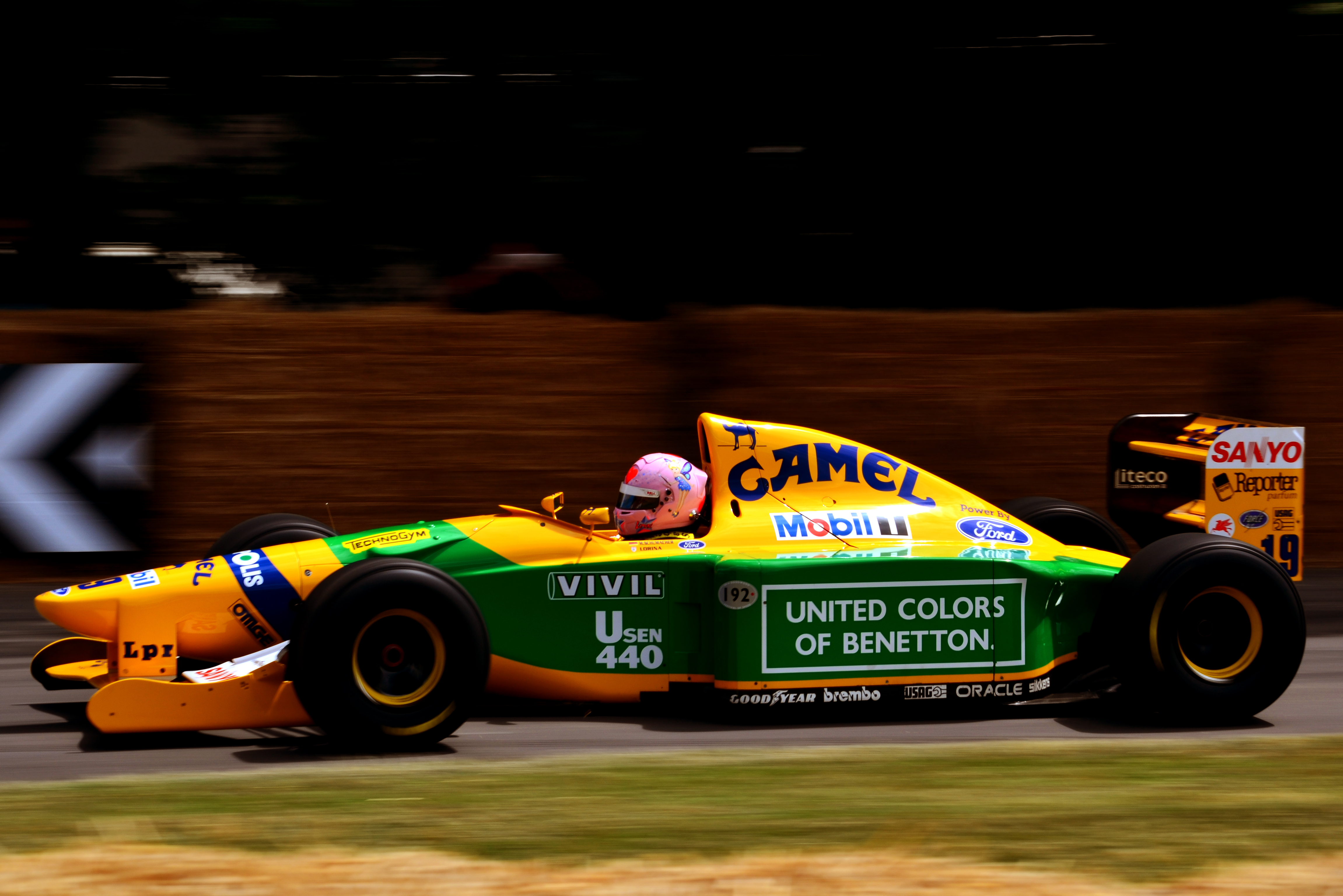 Michael Schumacher's 1992 Benetton B192 F1 car at the 2014 Goodwood Festival of Speed.